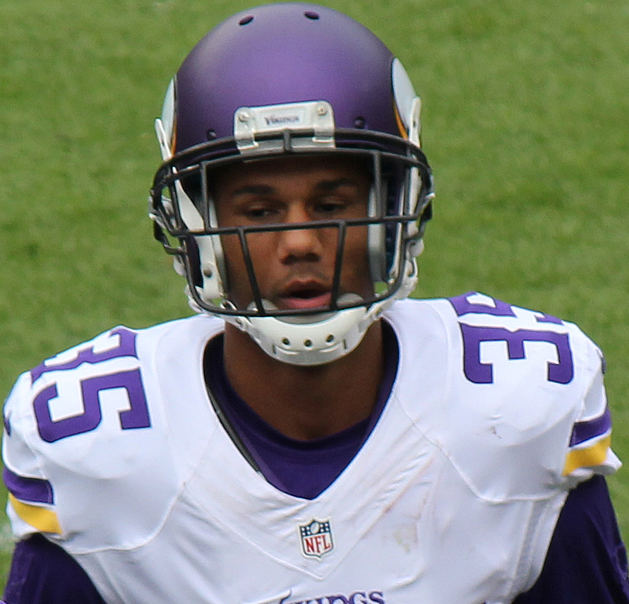 Marcus Sherels, a player on the National Football League.